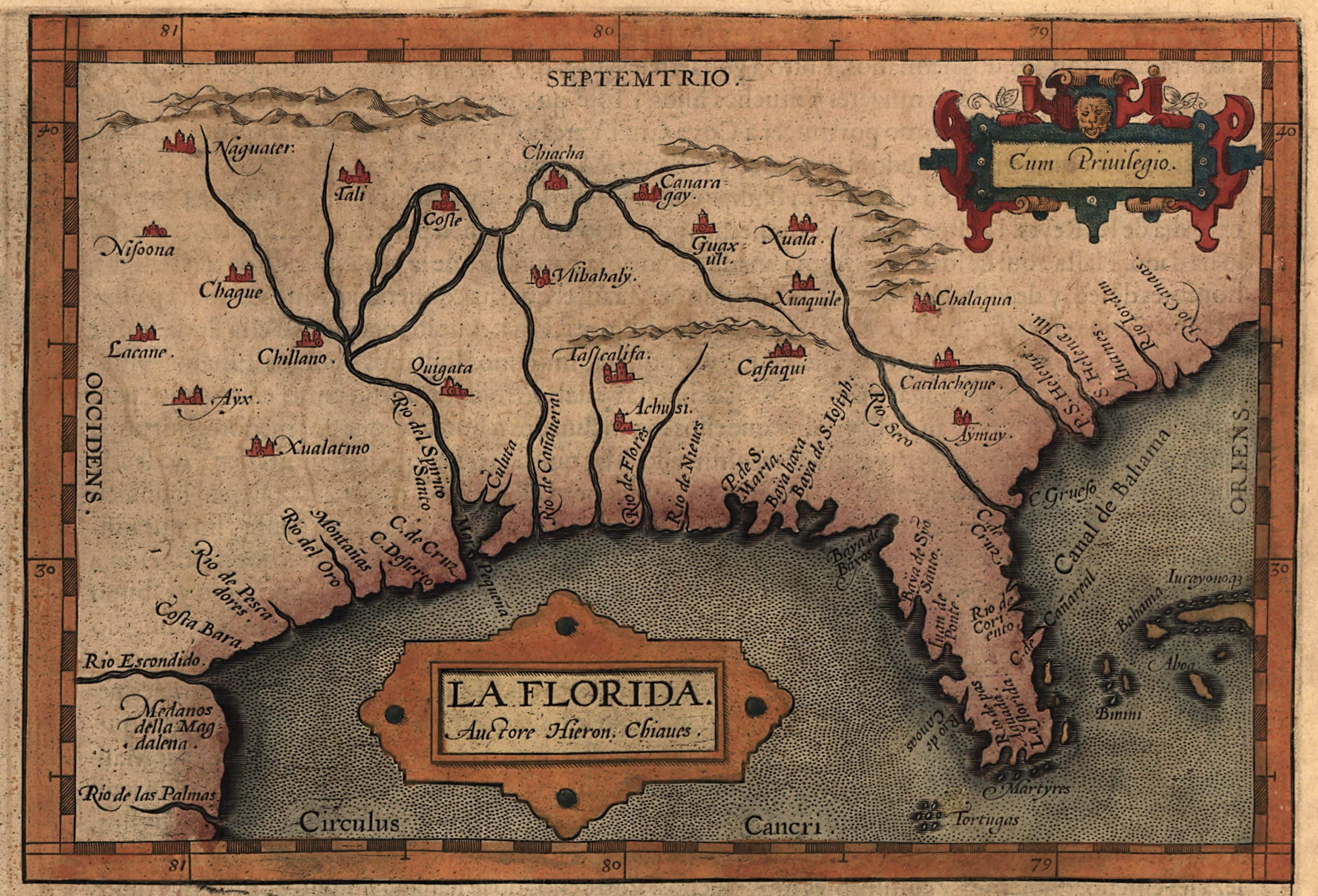 Map of the Spanish province of "La Florida," which included most of the southeastern United States. The map was drawn by Spanish royal cartographer Geronimo Chiaves, and was probably based on accounts by members of the Hernando De Soto expedition (1539-1543). The map was originally published in Abraham Ortelius' Theatrum Orbis Terrarum in 1584.